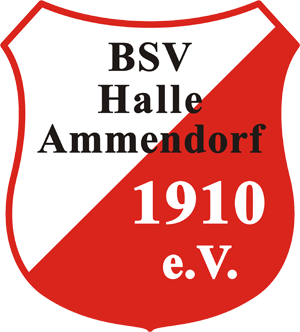 Logo of the BSV Halle-Ammendorf, a German football (soccer) team